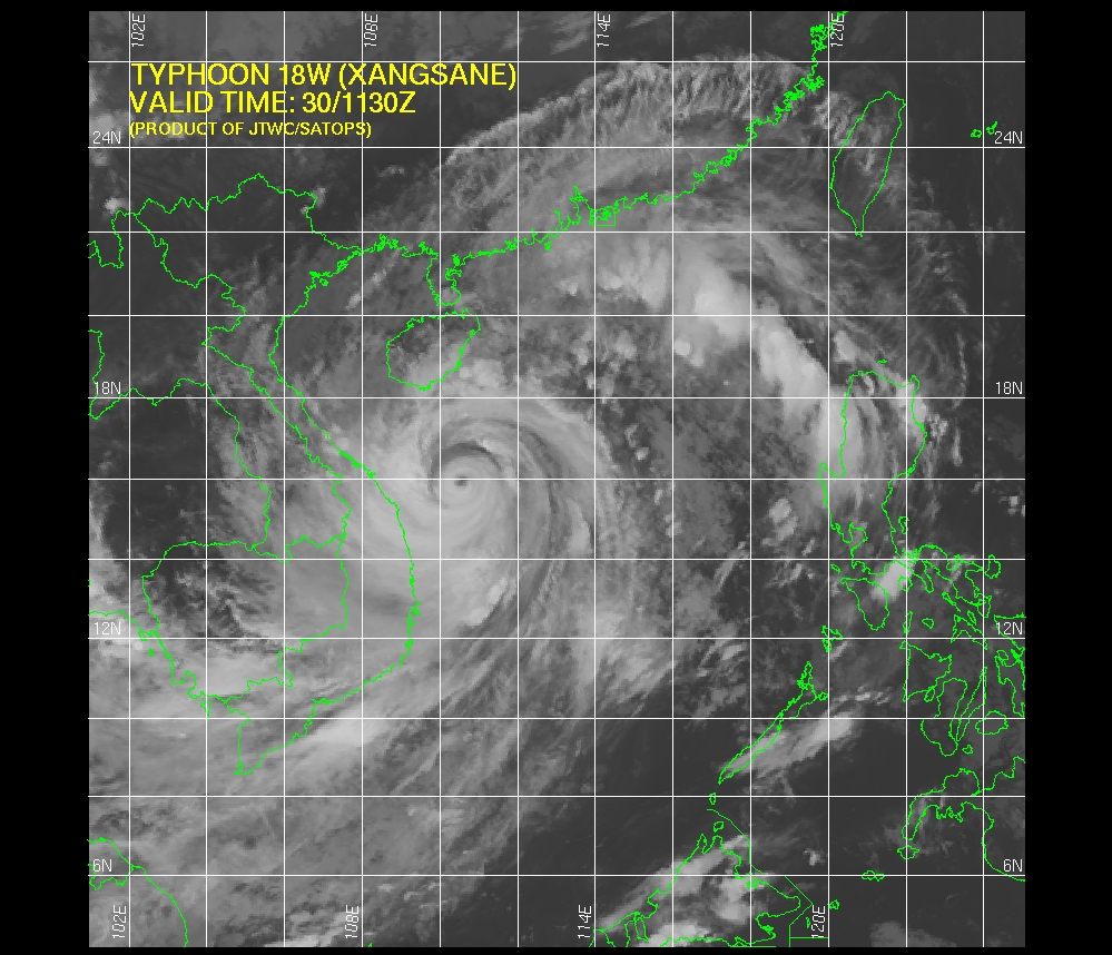 Typhoon 18W (Xangsane) 2006-09-30 11-30Z